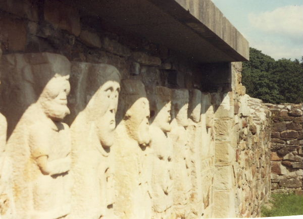 White Island Figures, Lower Lough Erne, Co Fermanagh, Ireland. These figures, carved into the north wall of the church, are 9th and 10th century carvings. White Island lies in Lower Lough Erne near Castle Archdale.